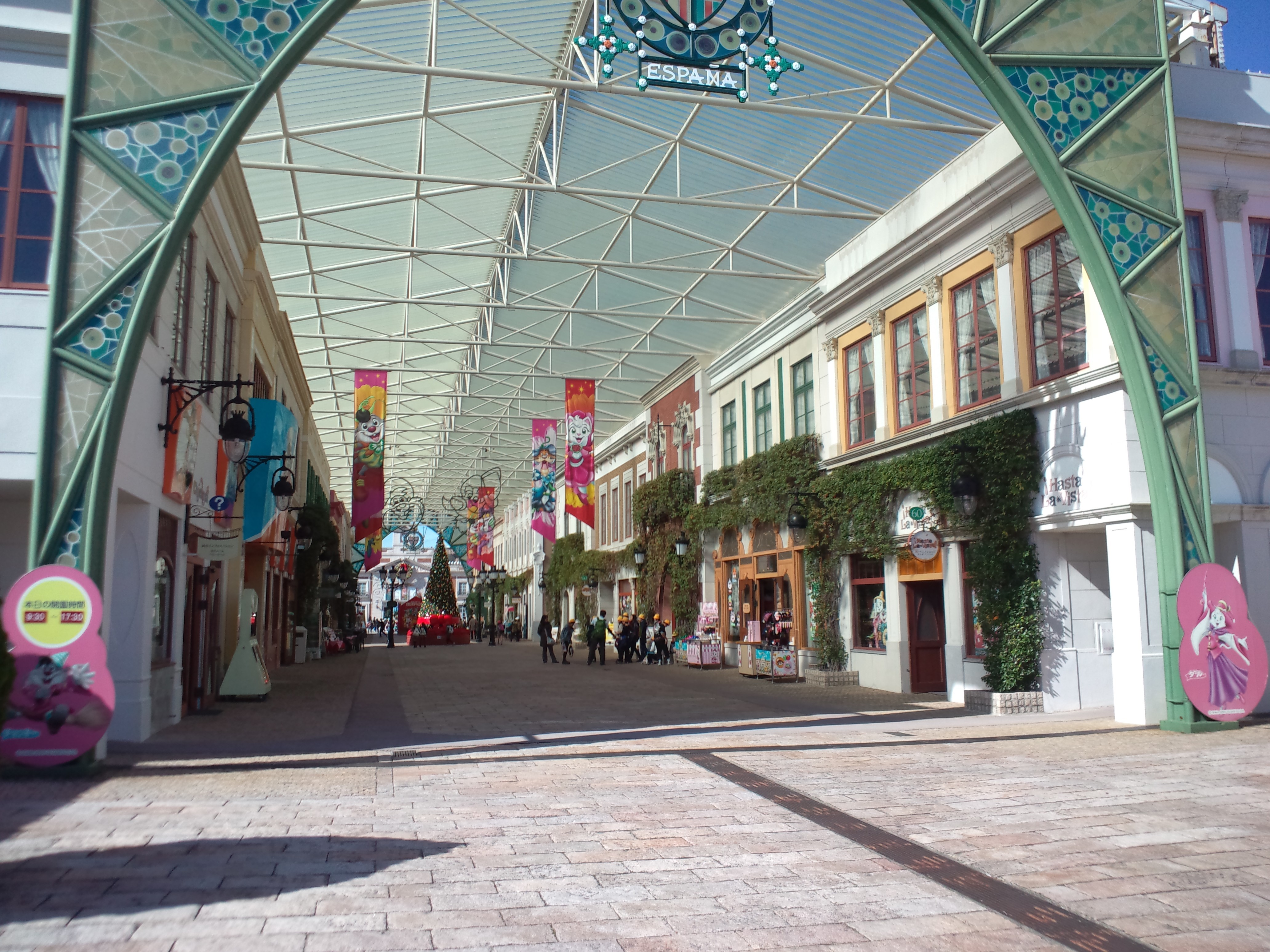 Shima Spain Village "PARQUE ESPAÑA" - Spanish Avenue